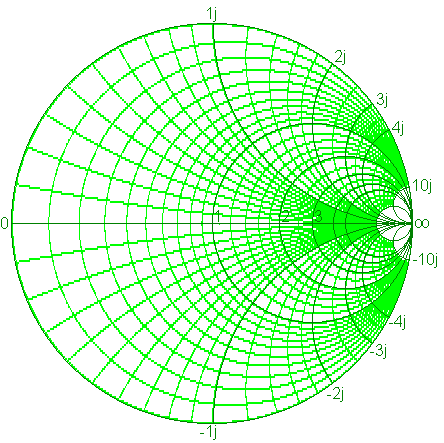 Blank Smith chart